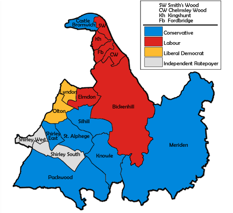 Ward map of Solihull Council with political colouring for the 1990 election.